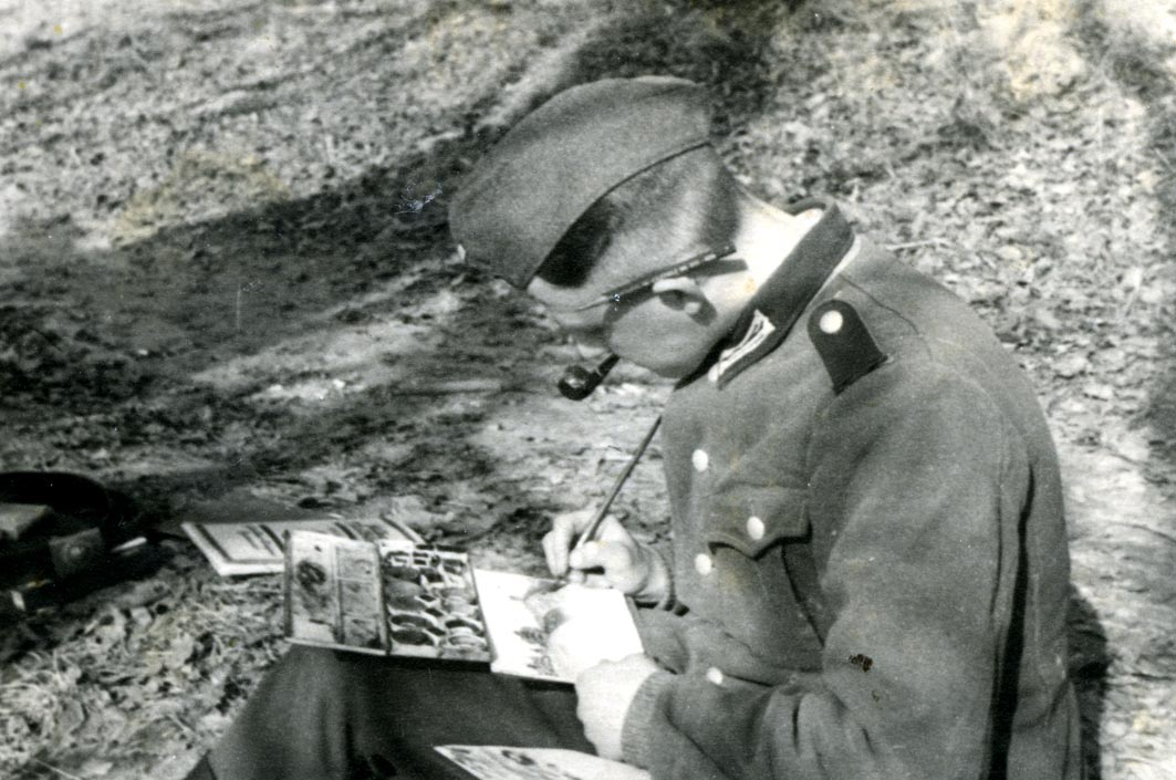 Emil Waldmann (painter) as a soldier in WWII drawing a picture with water colors.